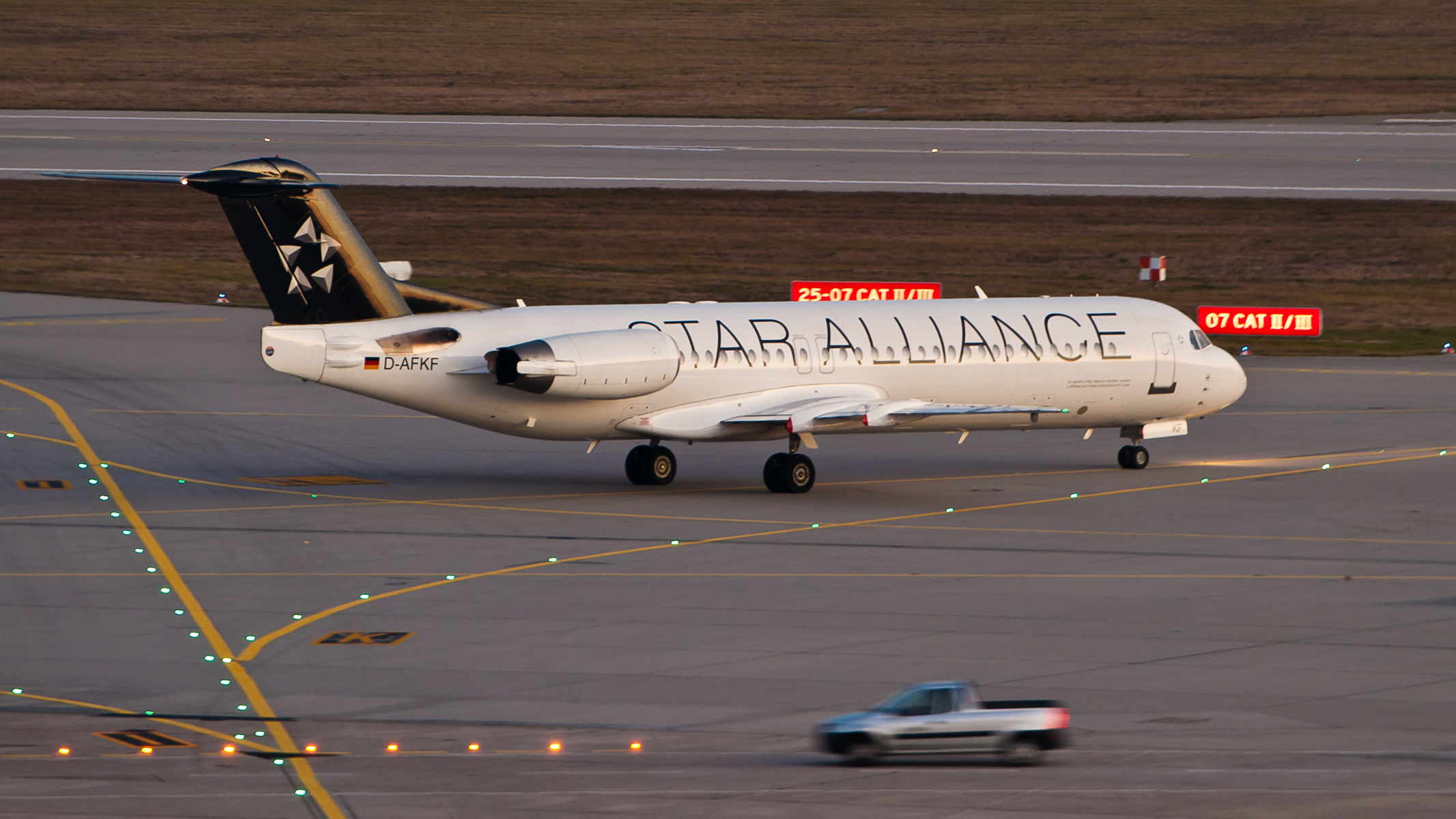 Contact Air Interregional (Star Alliance livery) Fokker 100, Registration: D-AFKF - Stuttgat Airport (EDDS/STR)